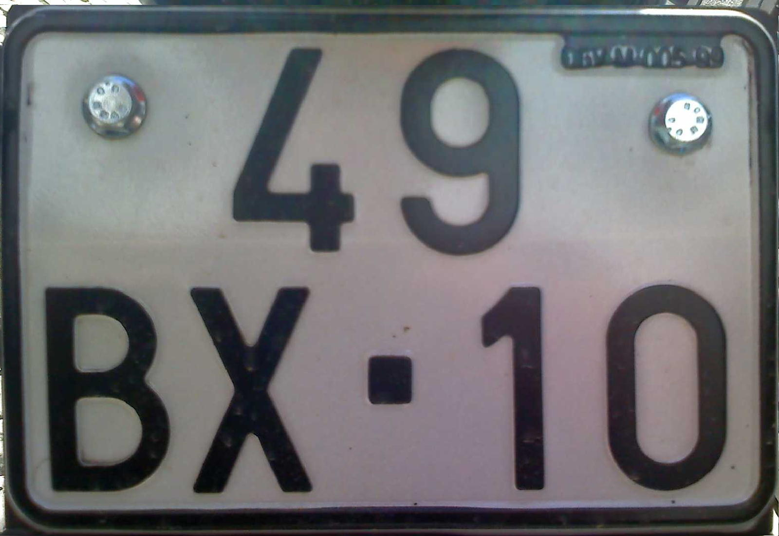 Motorcycle license plate of Portugal